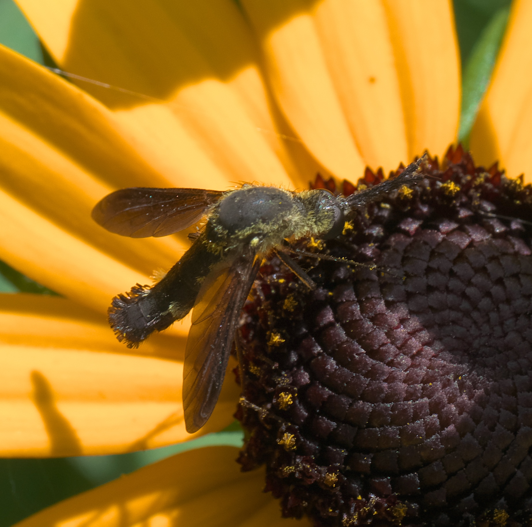 Lepidophora lepidocera, Scaly Bee Fly, ID Confidence: 90